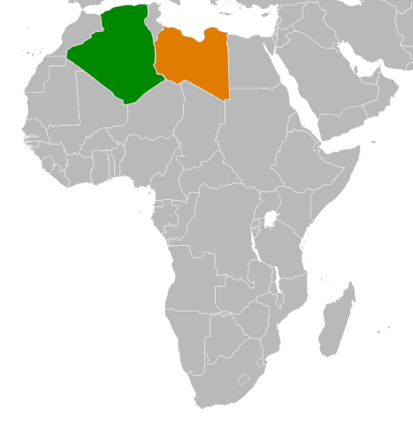 Locator map showing Algeria and Libya